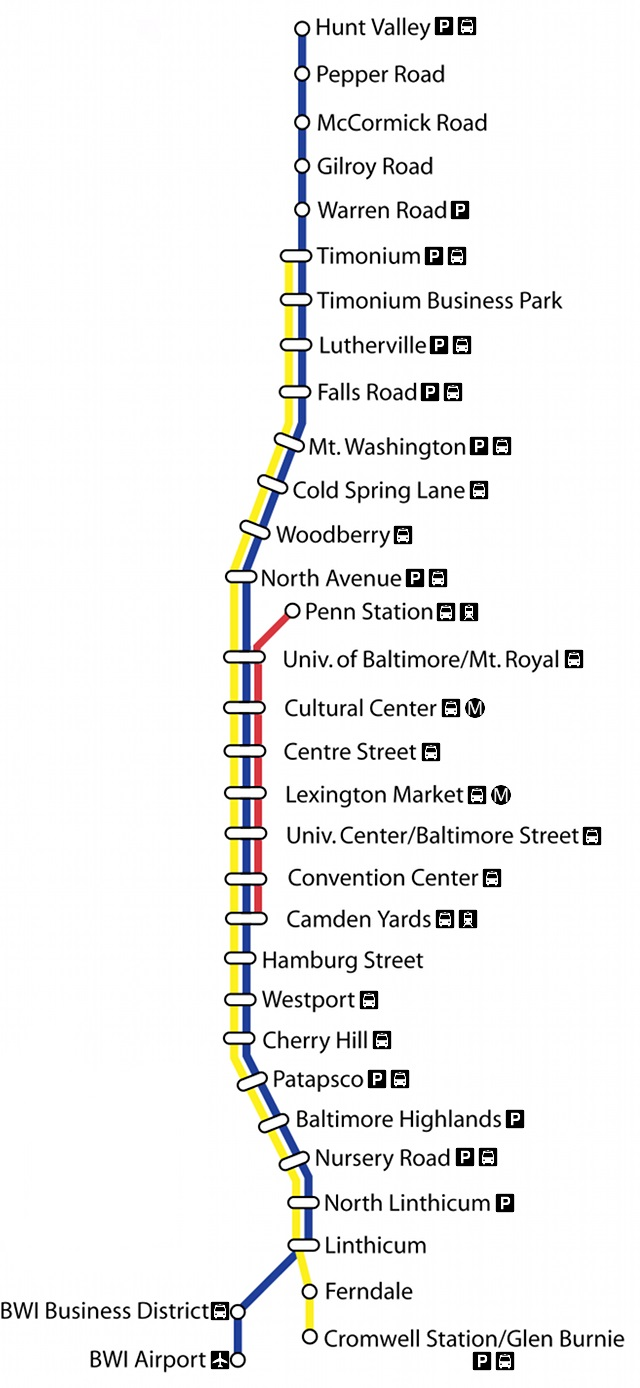 Simple Map of the Baltimore Light Rail, including transfers to other transportation options and parking access.